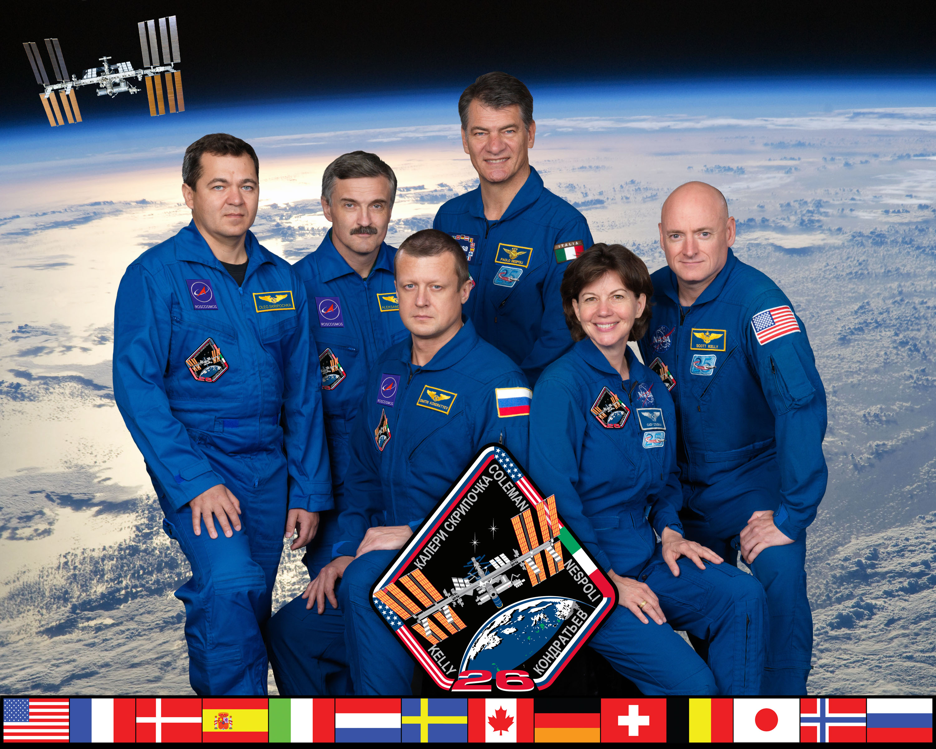 Expedition 26 crew members take a break from training at NASA's Johnson Space Center to pose for a crew portrait. Pictured clockwise from the right are NASA astronaut Scott Kelly, commander; NASA astronaut Catherine Coleman, Russian cosmonauts Dmitry Kondratyev, Oleg Skripochka, Alexander Kaleri and European Space Agency (ESA) astronaut Paolo Nespoli, all flight engineers.